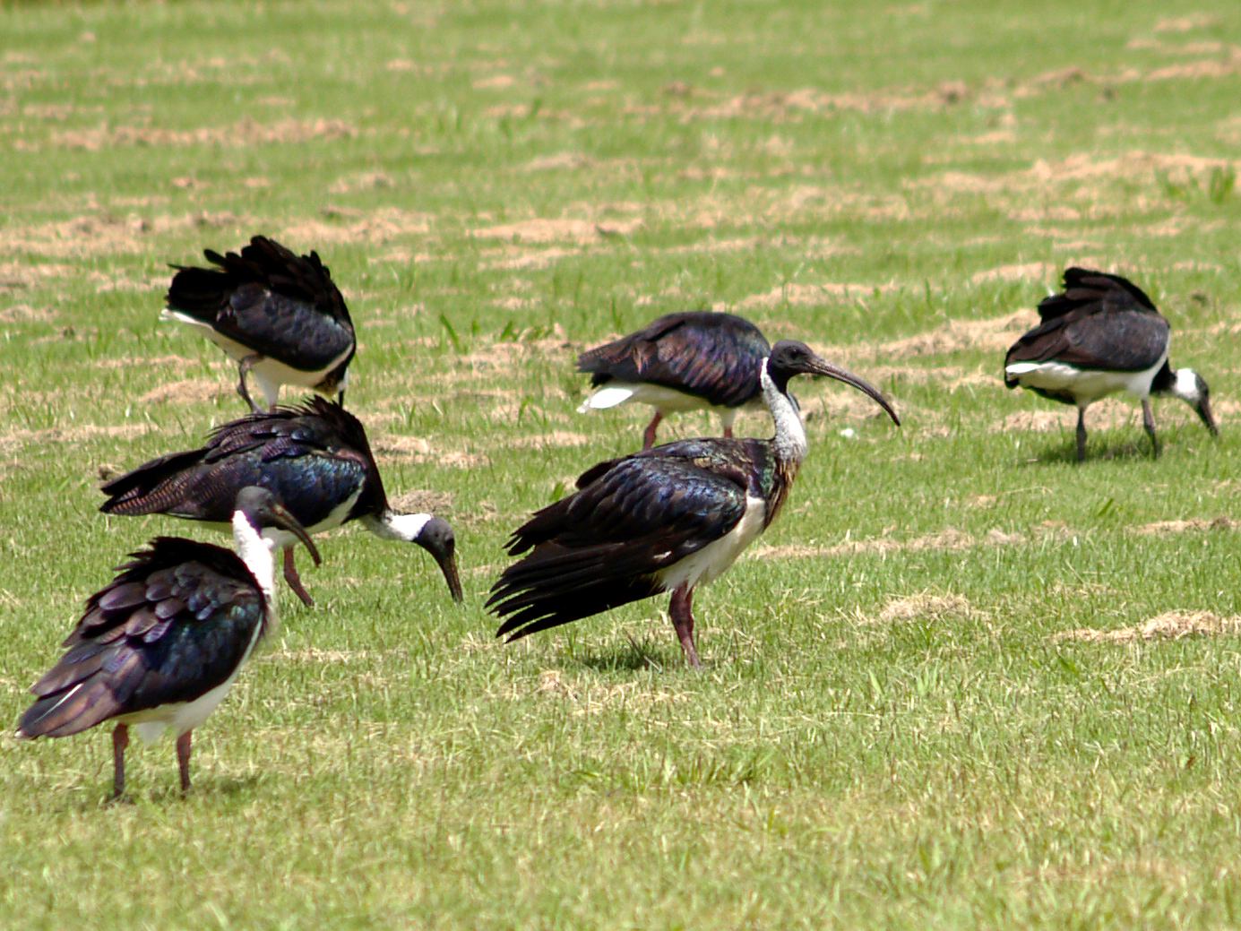 Straw Necked Ibis in the park across the road from the Royal Brisbane Hospital. This image is cropped from the original, as they wouldn't let me get very close